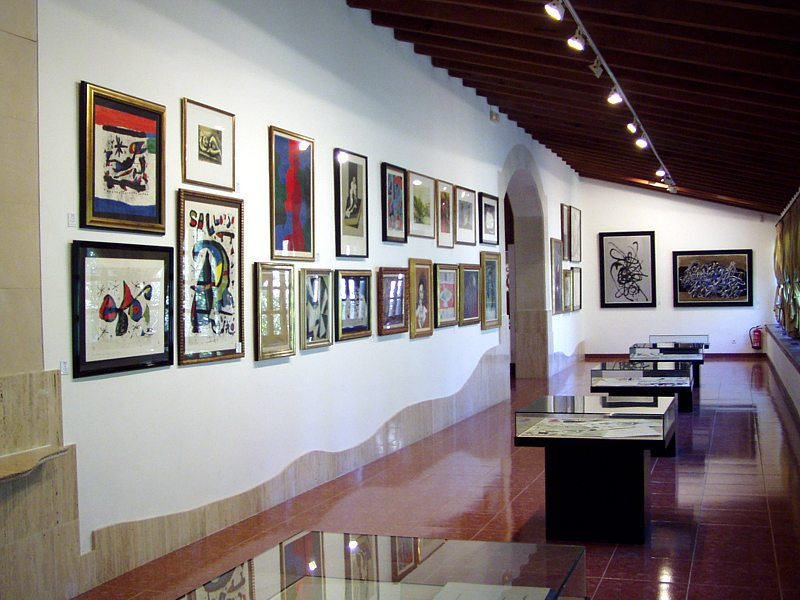 Galery of art in Valldemosa (Mallorca)